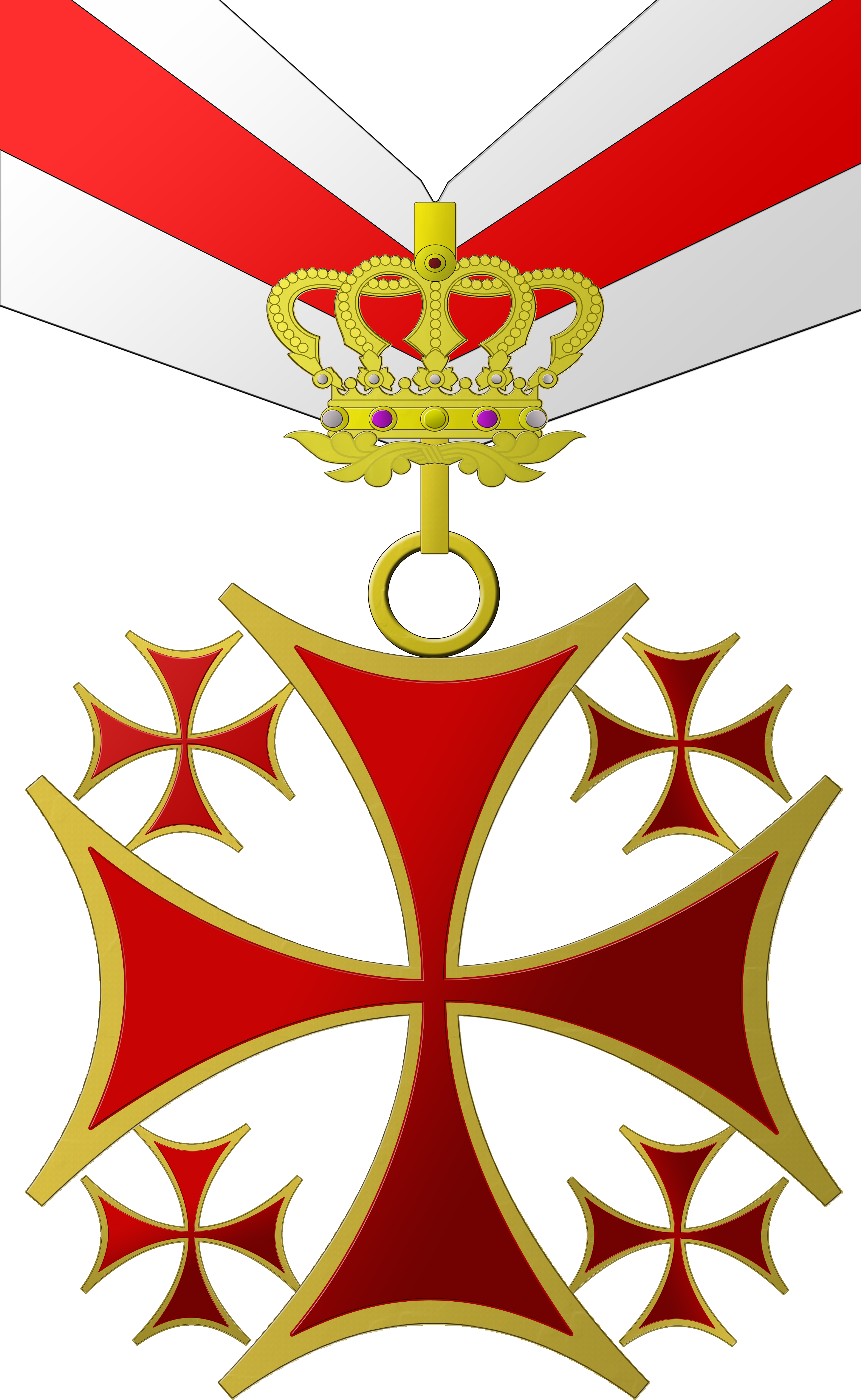 Personal work based on the original order